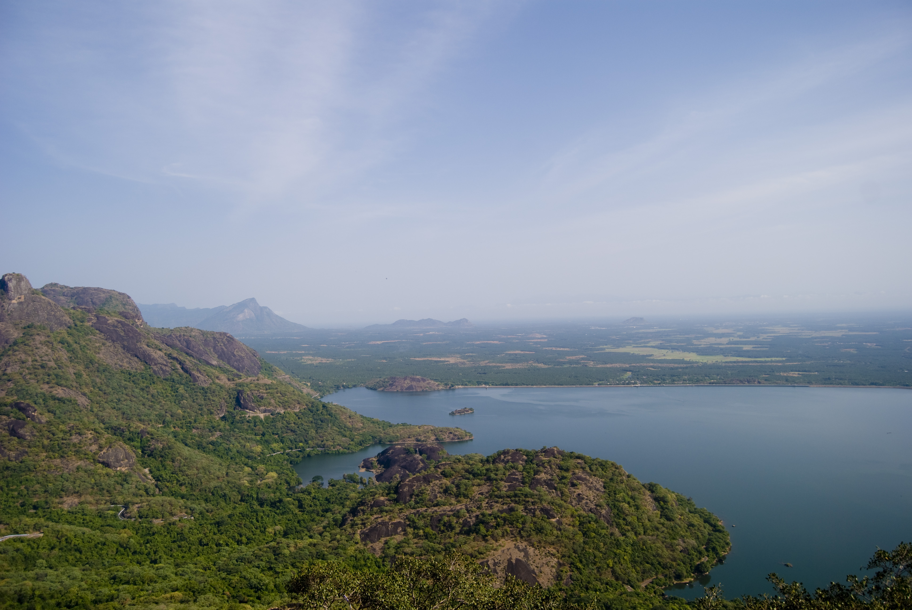 Landscape near Pollachi, Tamil Nadu